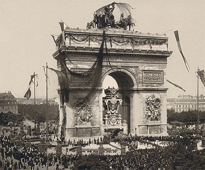 Catafalque and Castrum Doloris of Victor Hugo on his funeral, at the Arc de Triomphe, on 31th of May, 1885.